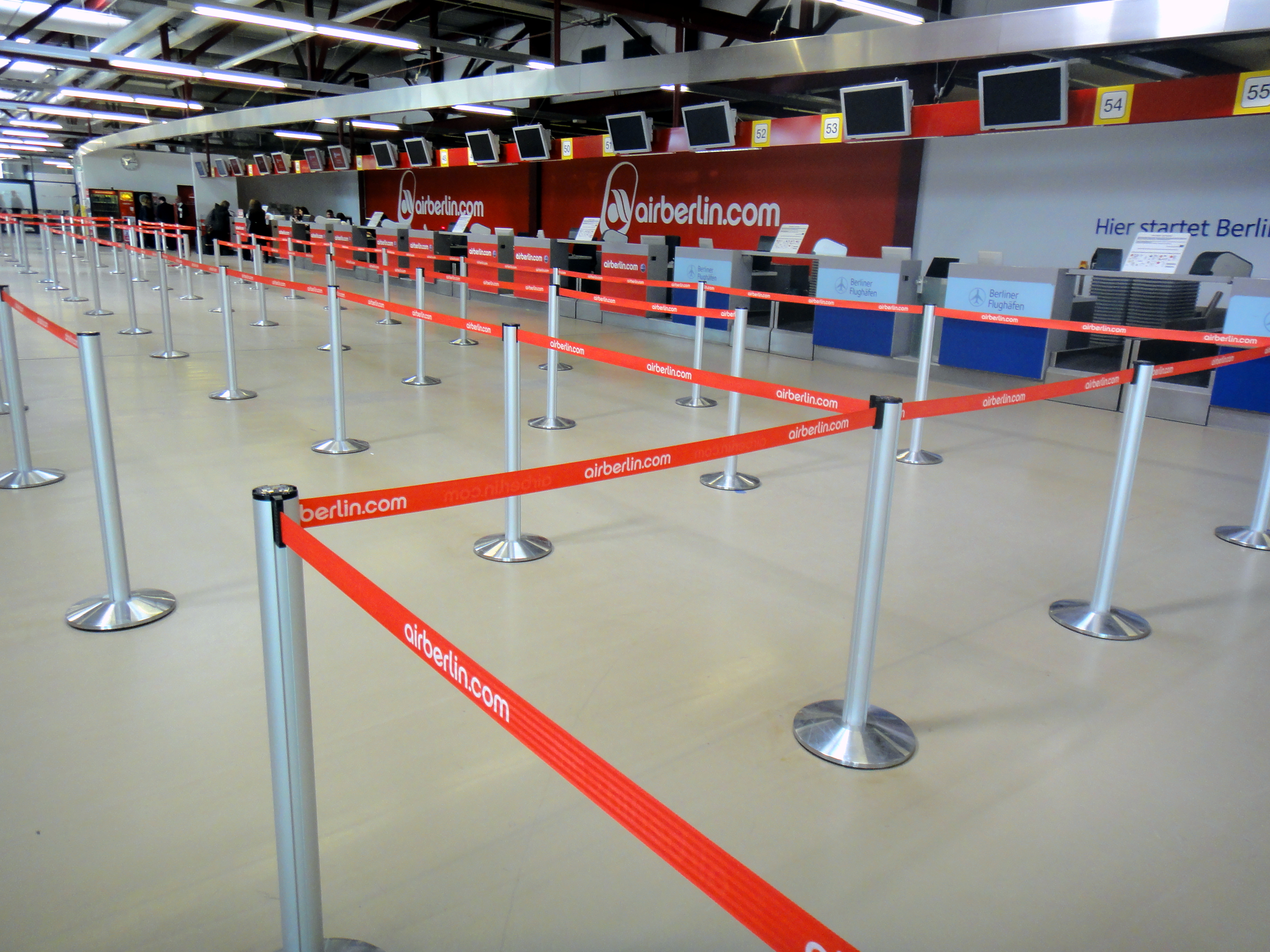 Air Berlin check-in at Terminal C, Tegel airport